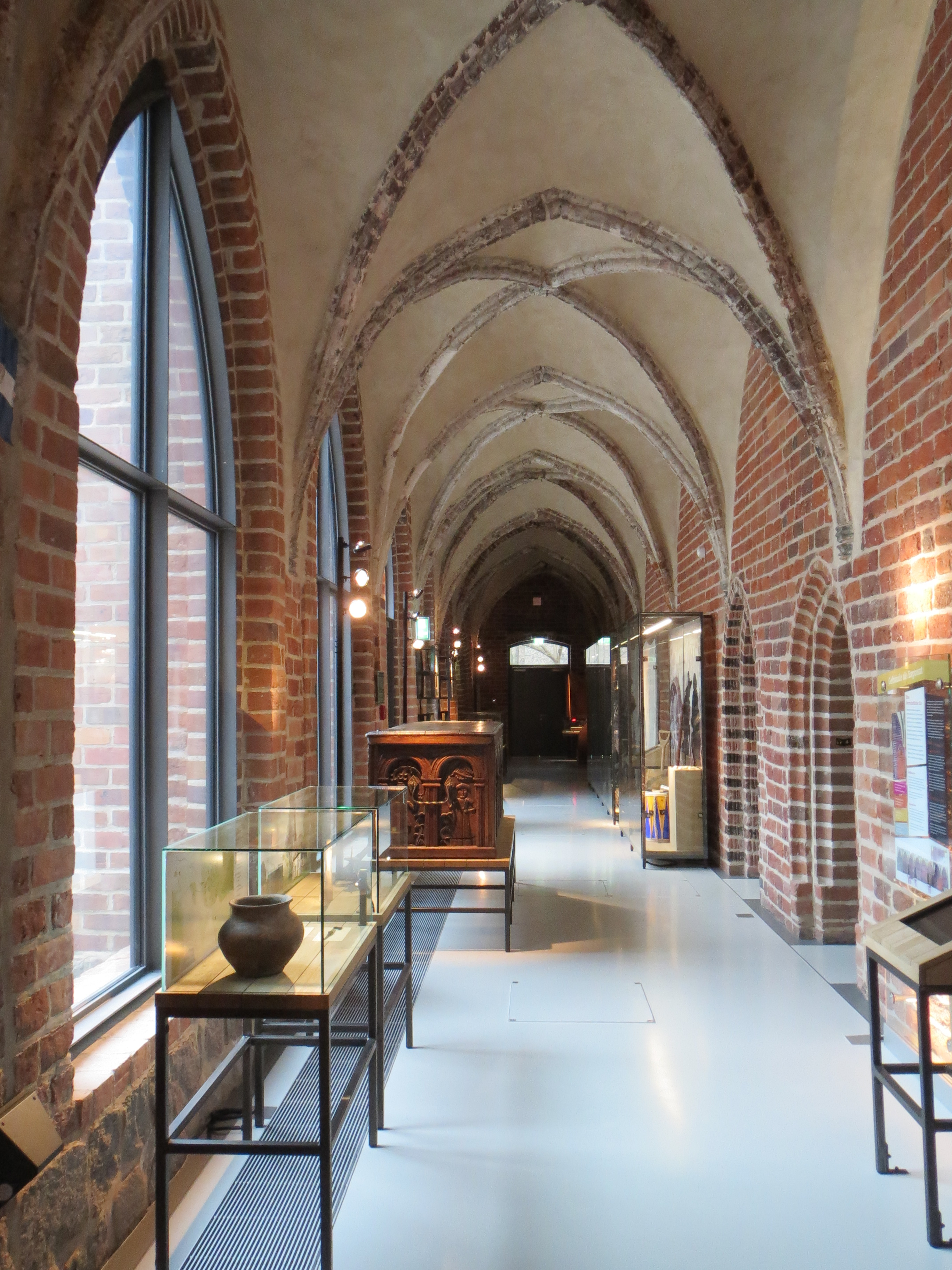 Franziskanerkloster Neubrandenburg